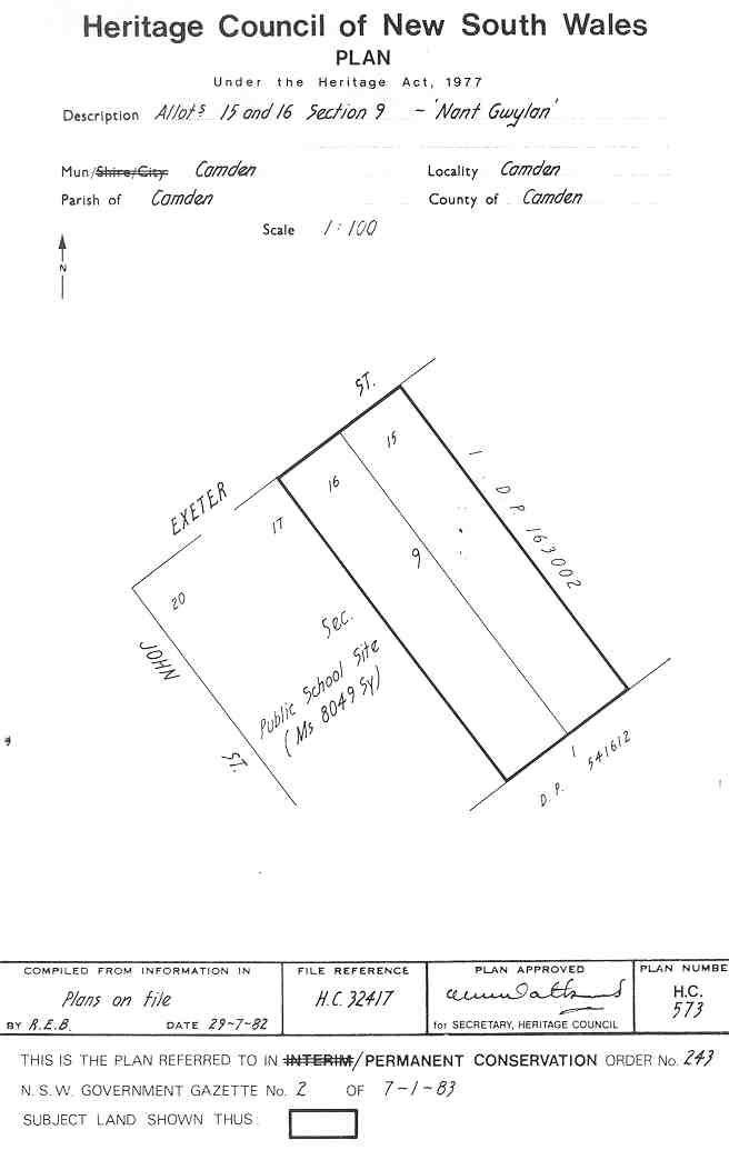 Nant Gwylan and Garden: PCO Plan Number 243